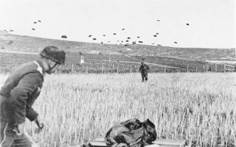 Information added by Wikimedia users.Crete, Nazi Germany paratrooper landing operation